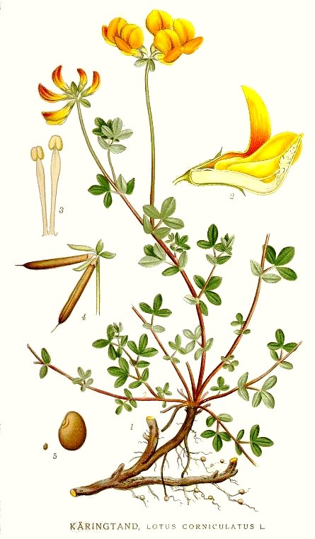 Original Description Käringtand, Lotus corniculatus L.